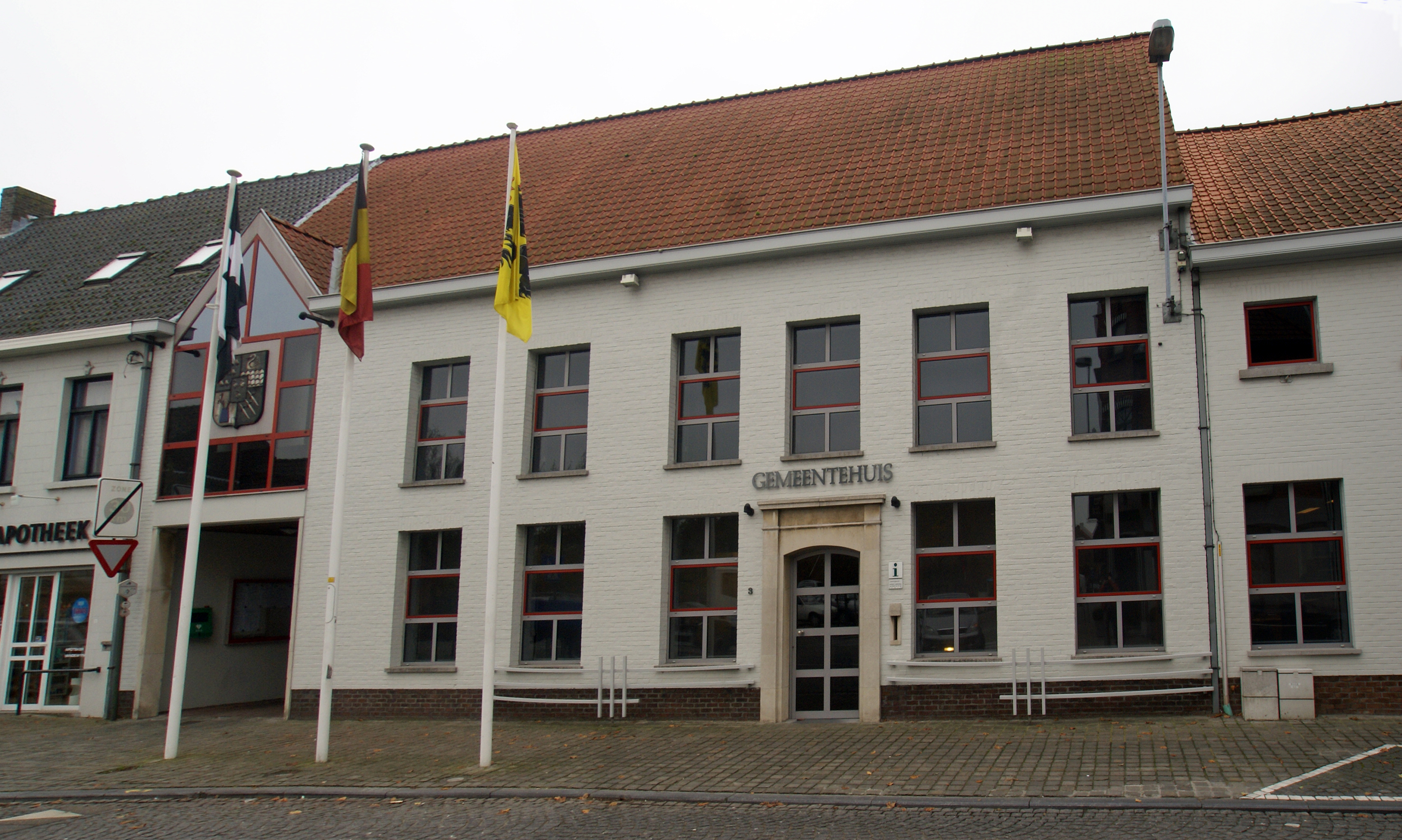 Jabbeke (Belgium): Town Hall